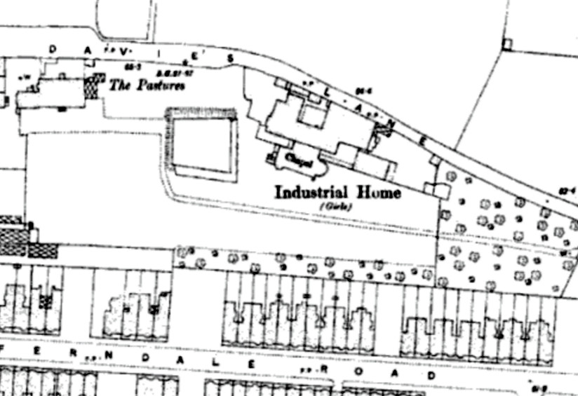 Childrens Homes in Leytonstome associated with Agnes Cotton - map dated 1895